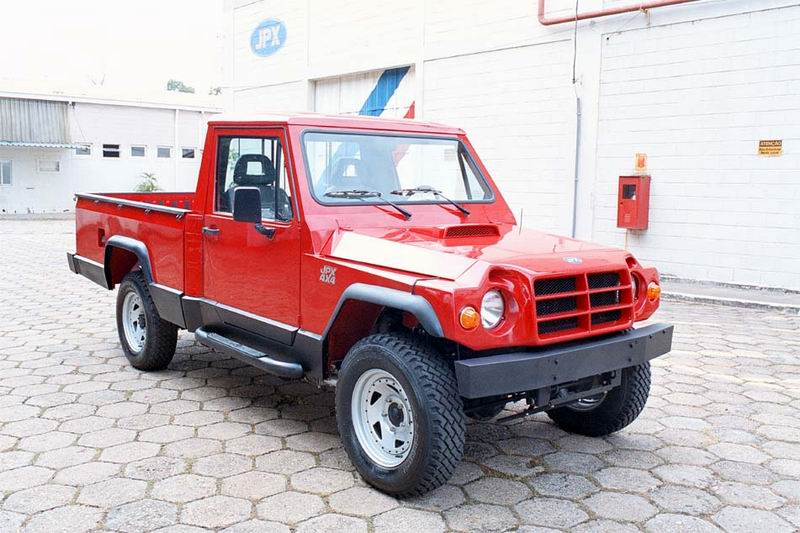 Pick-up JPX Montez.